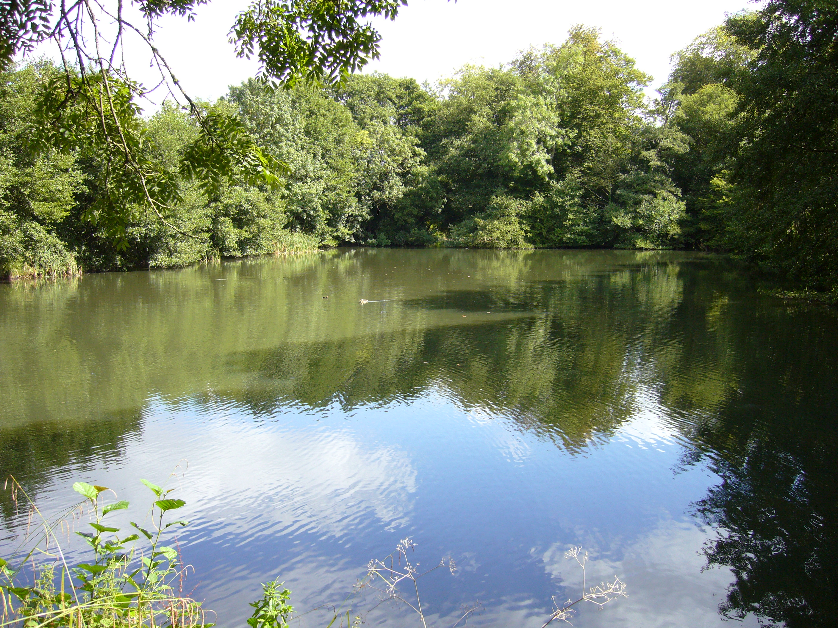 Orchardleigh Lake near Frome, viewed from the island church. Photographed in September 2007. Required attribution is: Photo by Tom Oates.